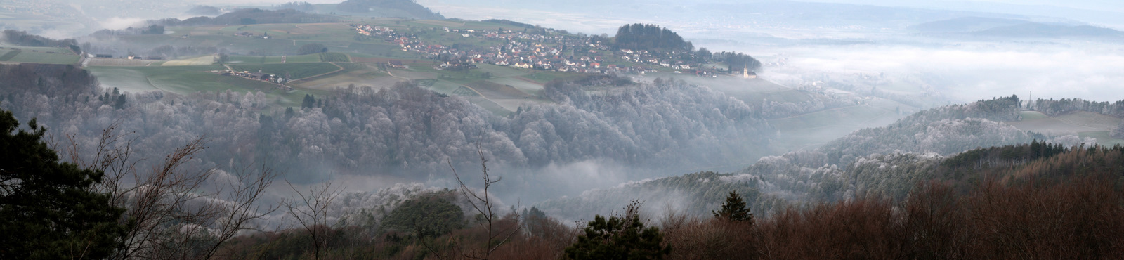 View from Irchelhochwacht on the Rhine Valley and the village of Buchberg